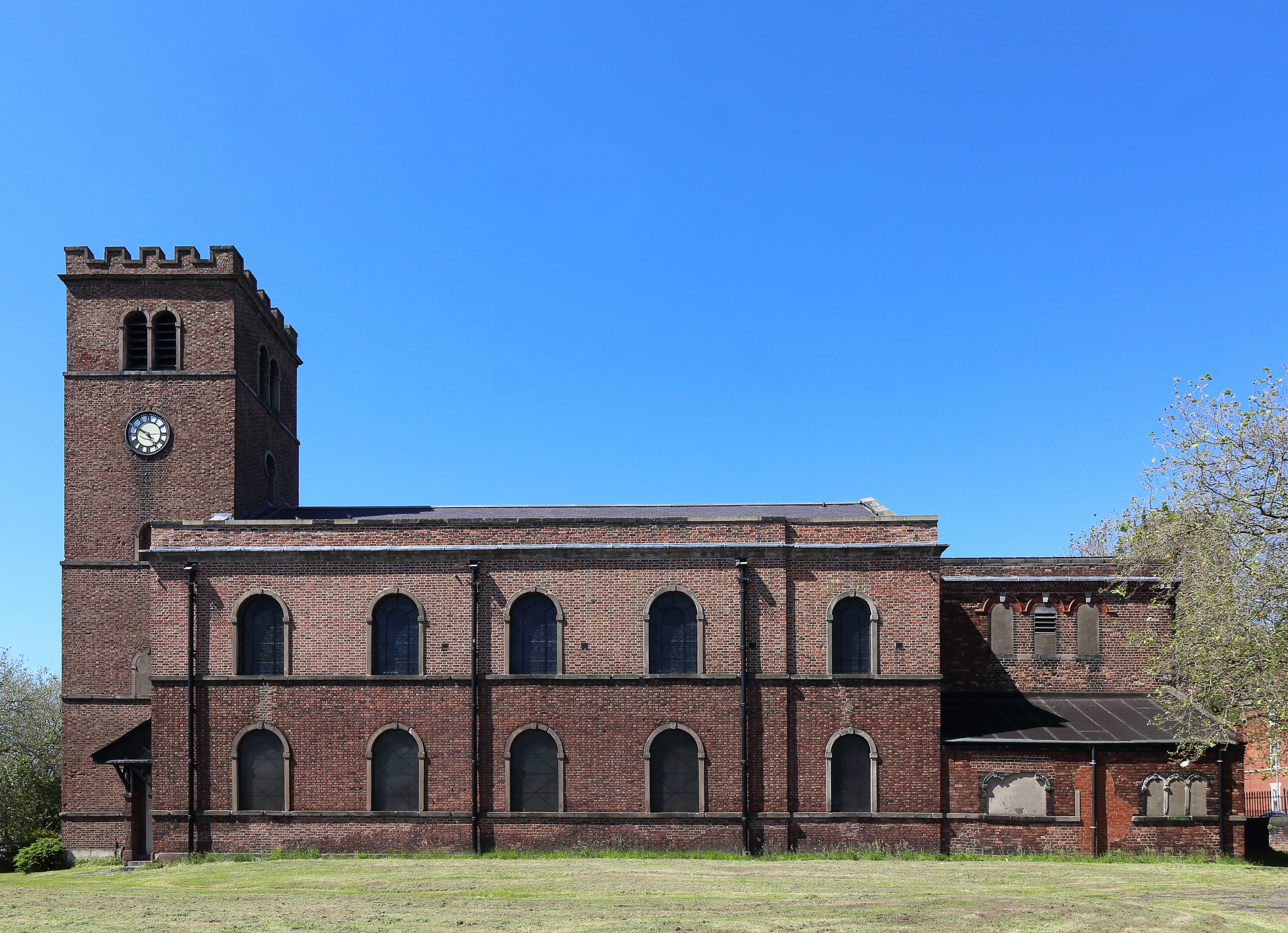 Grade II* listed Georgian brick church close to the Anglican Cathedral, Liverpool.